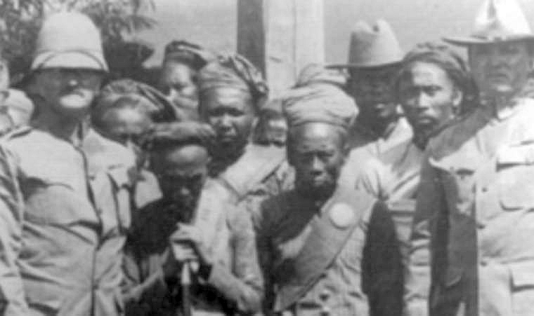 Photograph of U.S. Army officer and Medal of Honor recipient Cornelius C. Smith (far right) as commander of the Philippine Constabulary with Brig. Gen. John J. Pershing and Moro chieftans in 1910.